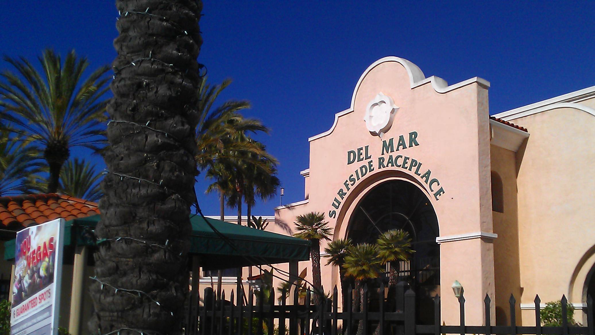 Picture of Surfside Race Place